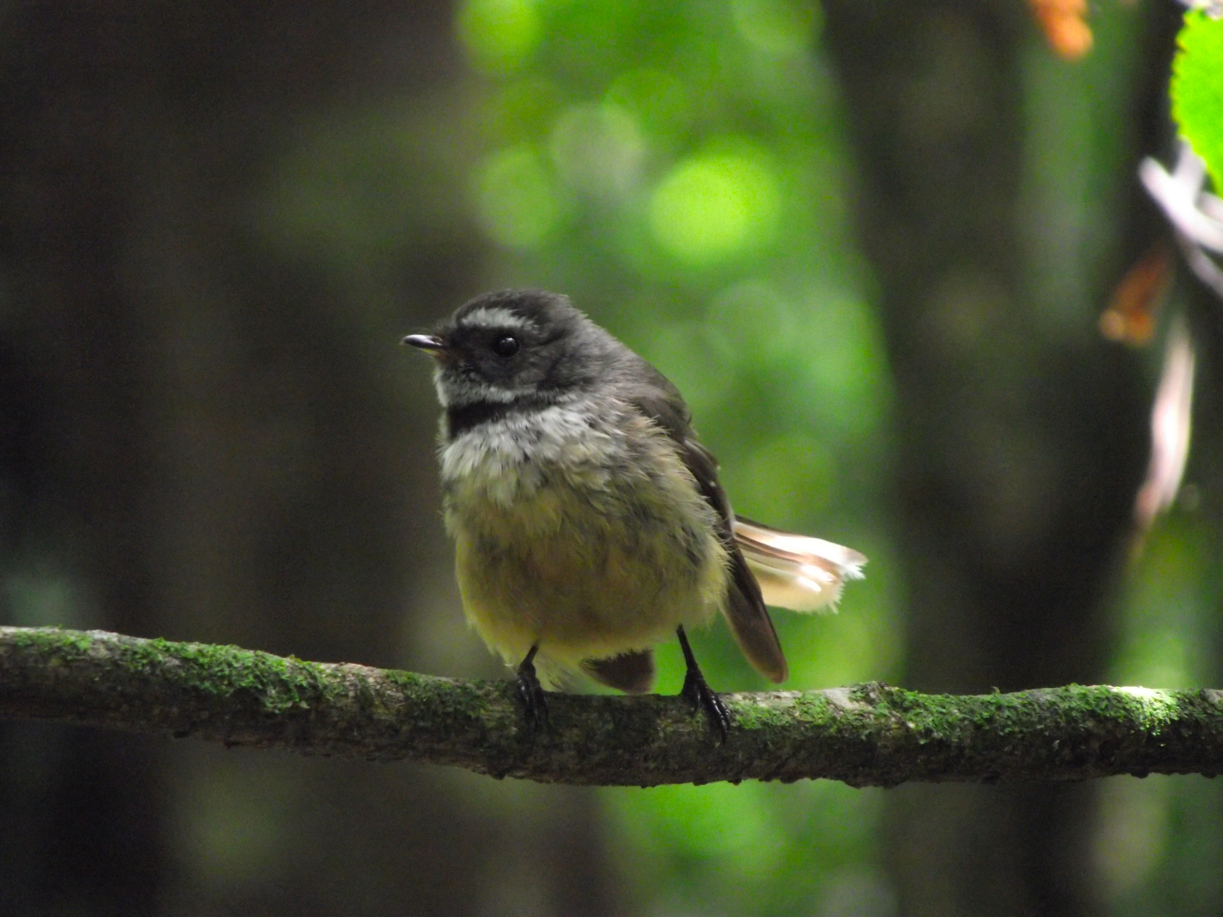 New Zealand Fantail in Hamilton City.